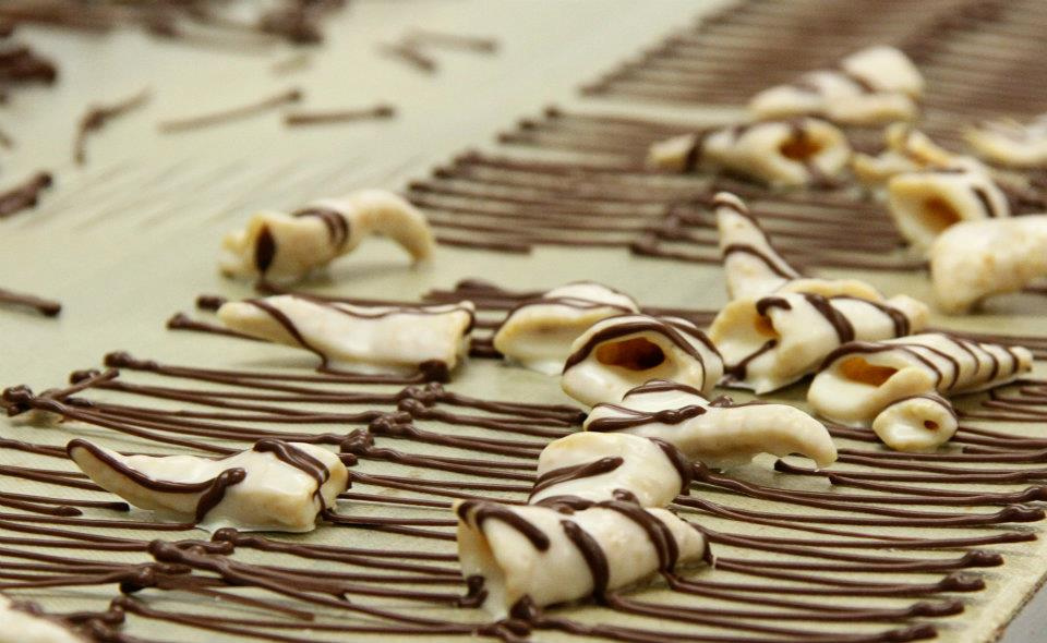 Chocolates on the assembly line at Bedrè Fine Chocolates.